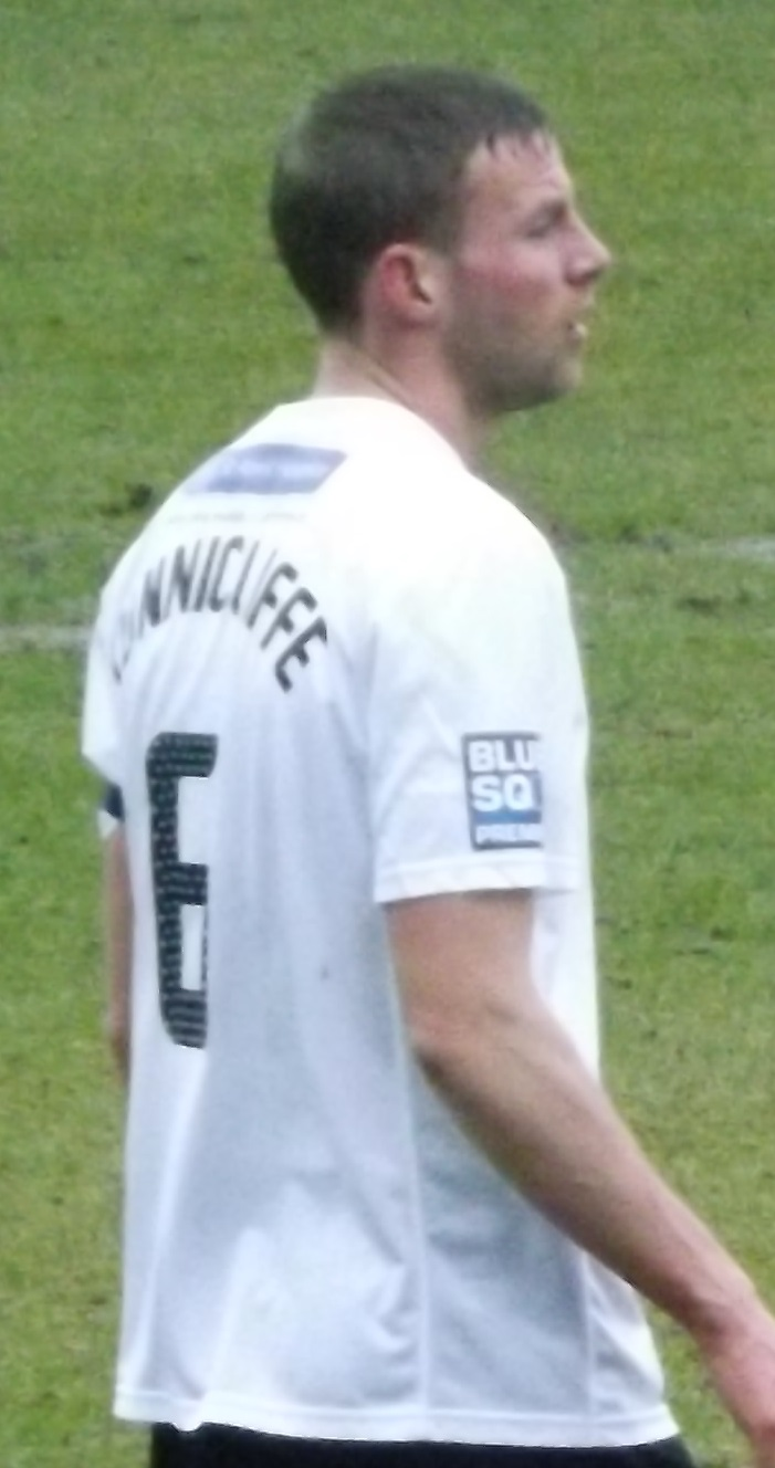 James Tunnicliffe. Image cropped from original at flickr.